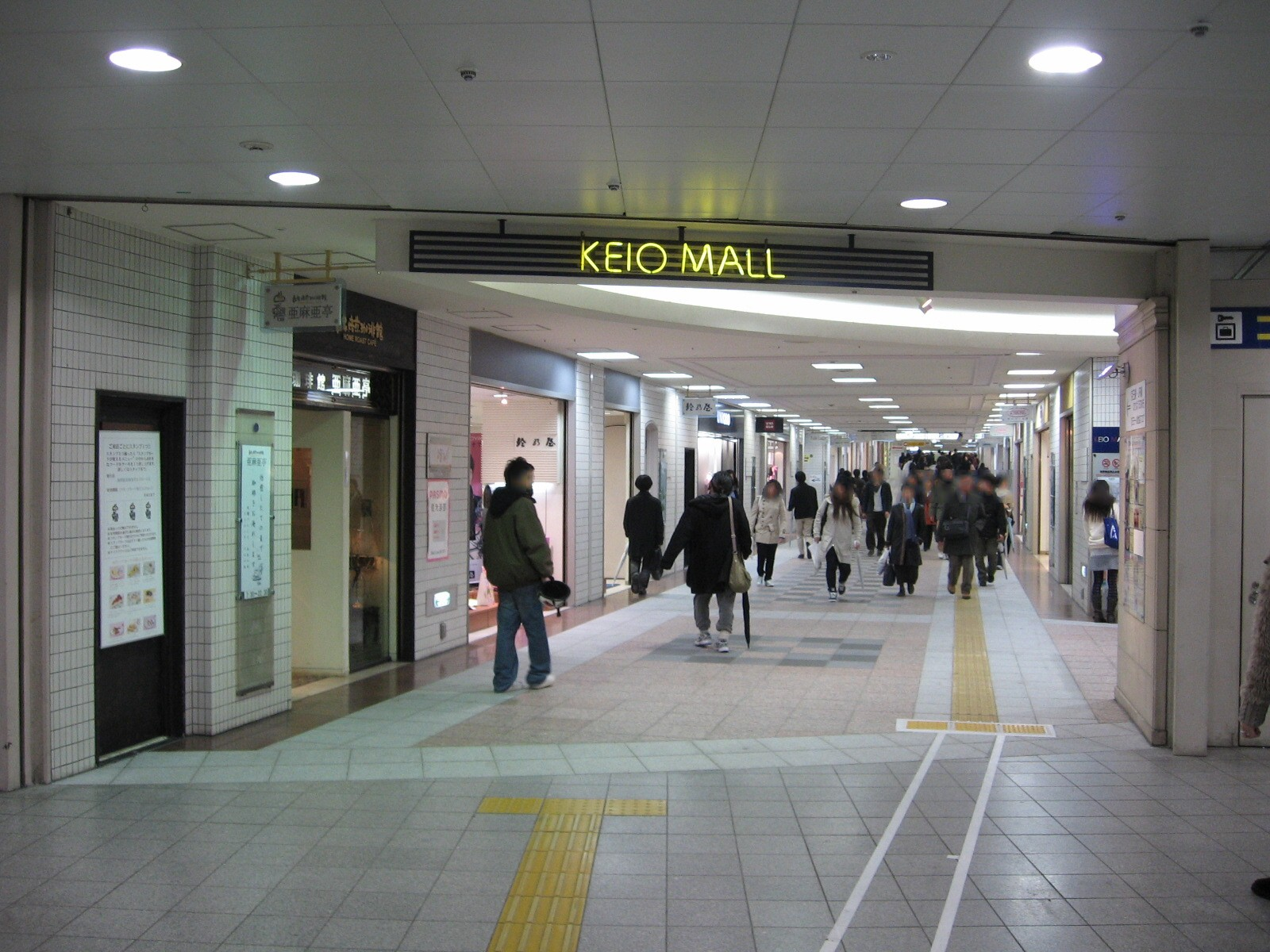 Keio mall from Shinjuku station.